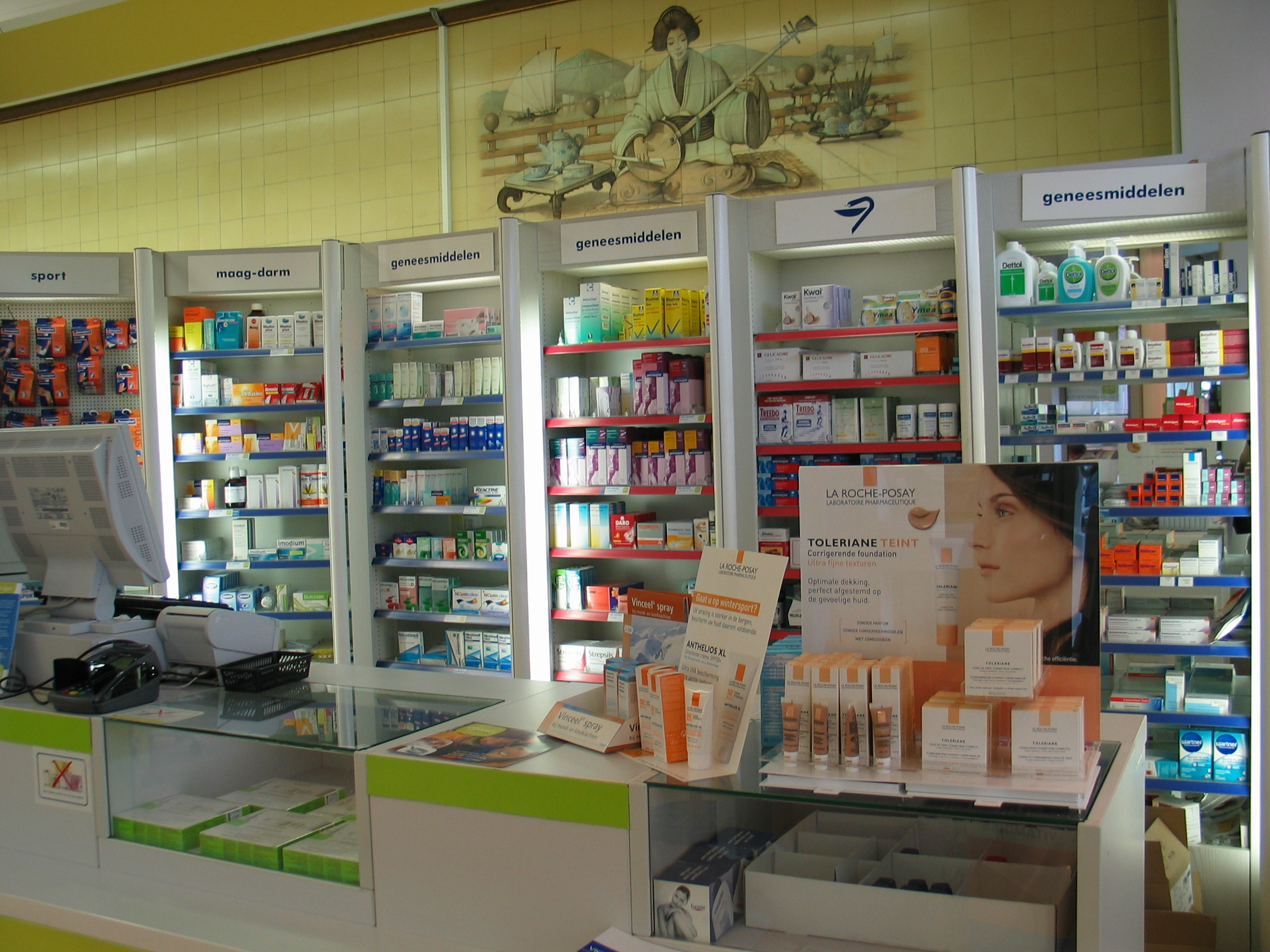 Pharmacy in the Netherlands